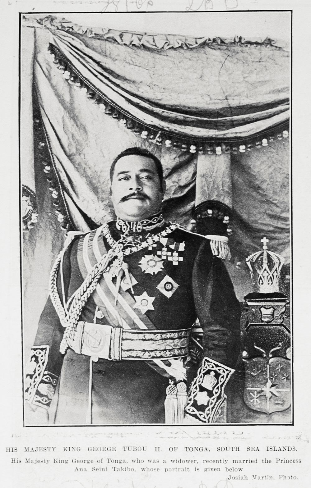 HIS MAJESTY KING GEORGE TUBOU II. OF TONGA, SOUTH SEA ISLANDS. Taken from the supplement to the Auckland Weekly News 16 December 1909 p020.